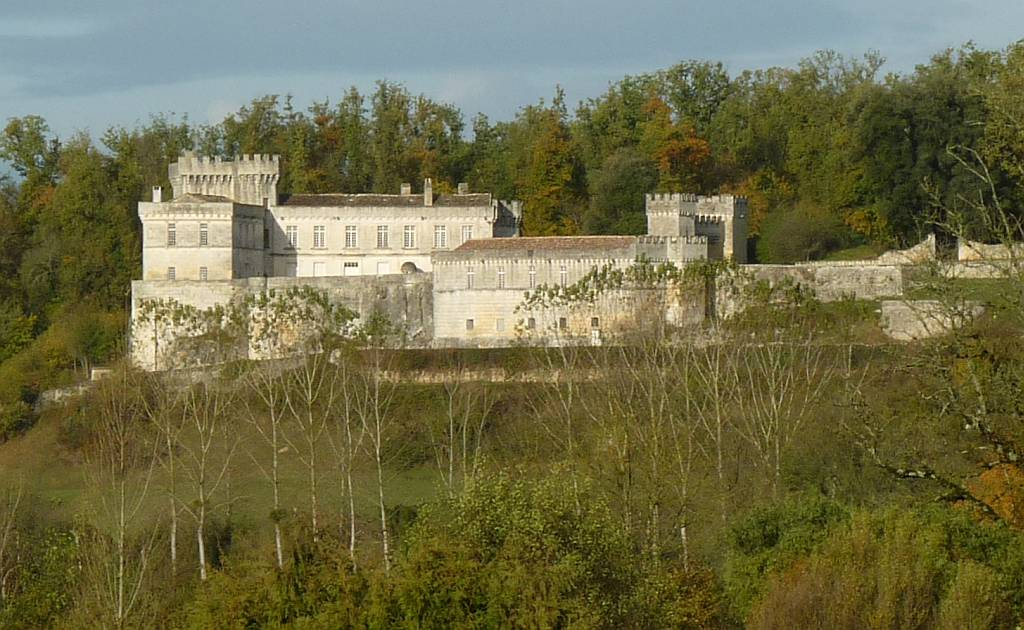 castle of La Tranchade, between Dirac and Garat, Charente, France